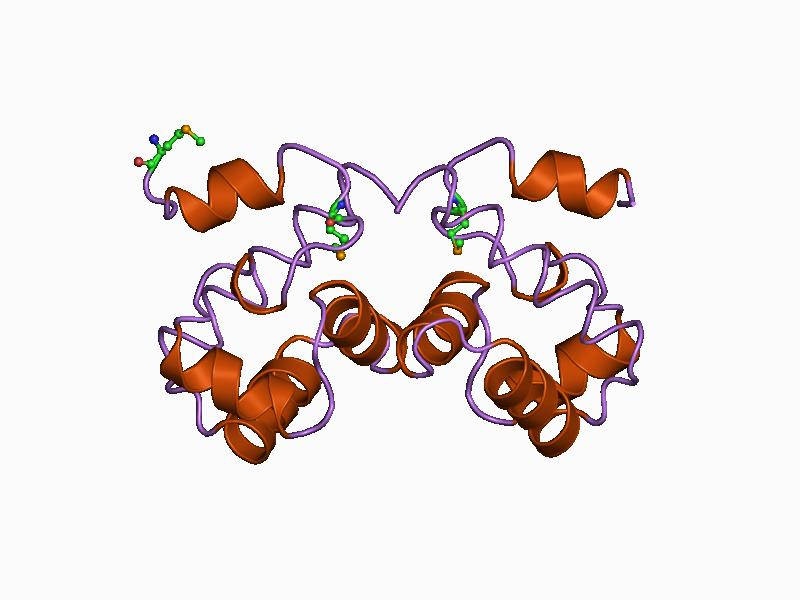 Cartoon representation of the molecular structure of protein registered with 1ci4 code.